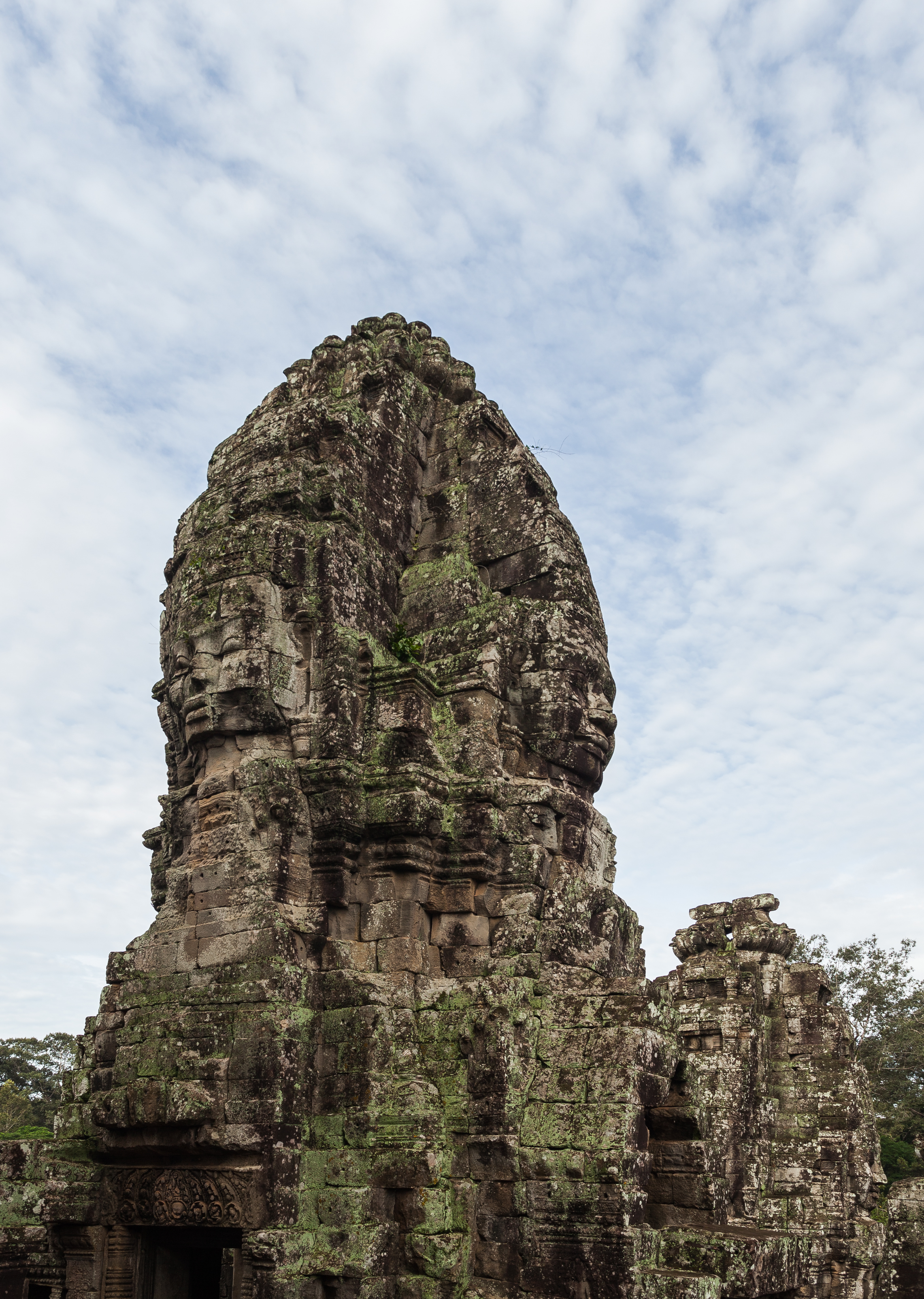 Bayon, Angkor Thom, Cambodia